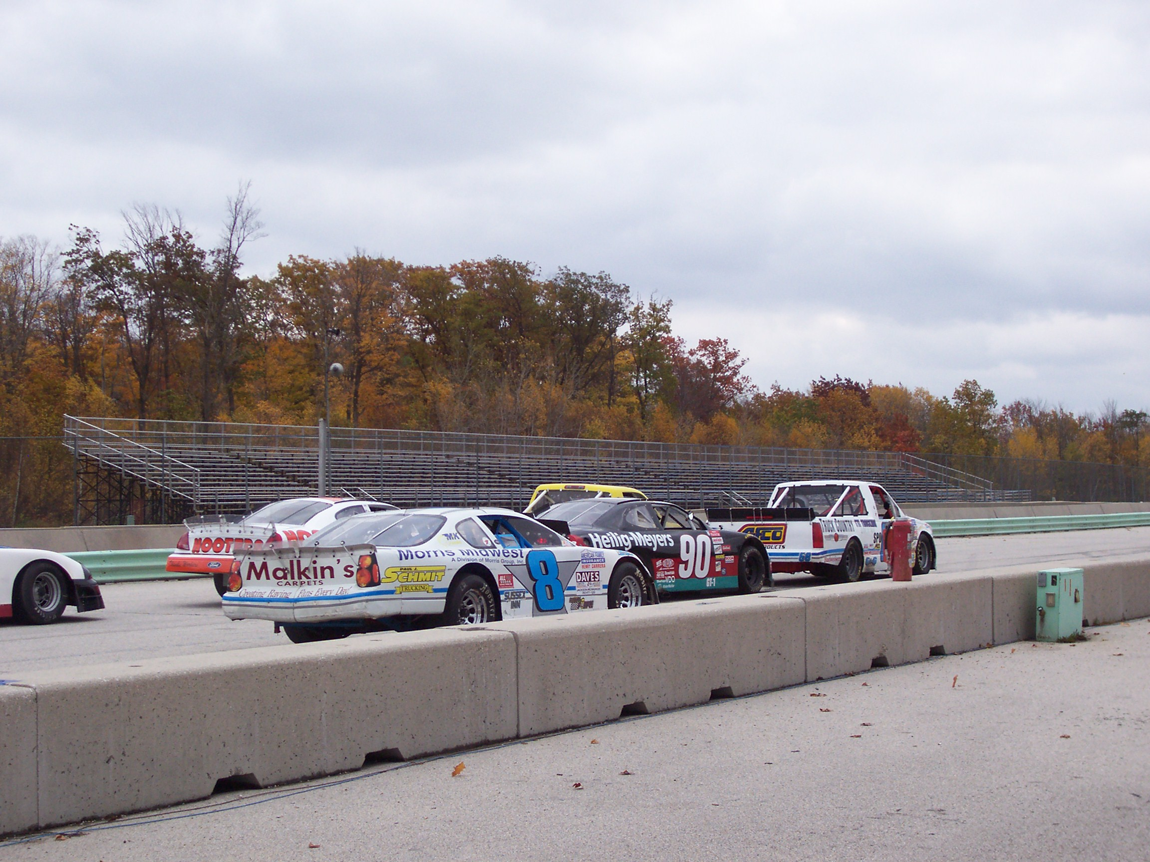 The mixed field at a historic stock car exhibition race at Road America, reminiscent of a Formula Libre event. None of the NASCAR vehicles were current models in their series. The yellow #10 and white #68 trucks on the front row were NASCAR Camping World Truck Series trucks, the second row consisted an white/orange #11 and black #90 NASCAR Sprint Cup Series cars, and the third row had white limited late model #72 (front fender visible) plus super late model #8 from the American Speed Association.